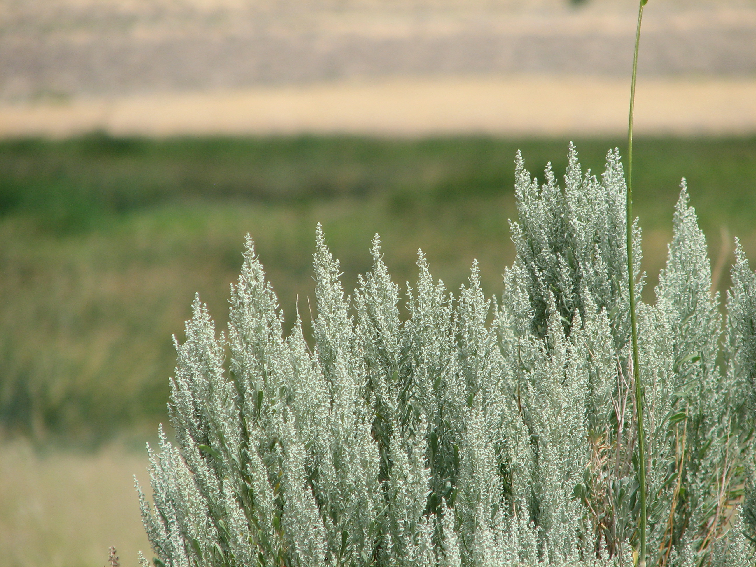 Sagebrush (Artemisia tridentata) near Stead, Nevada (just north of Reno)